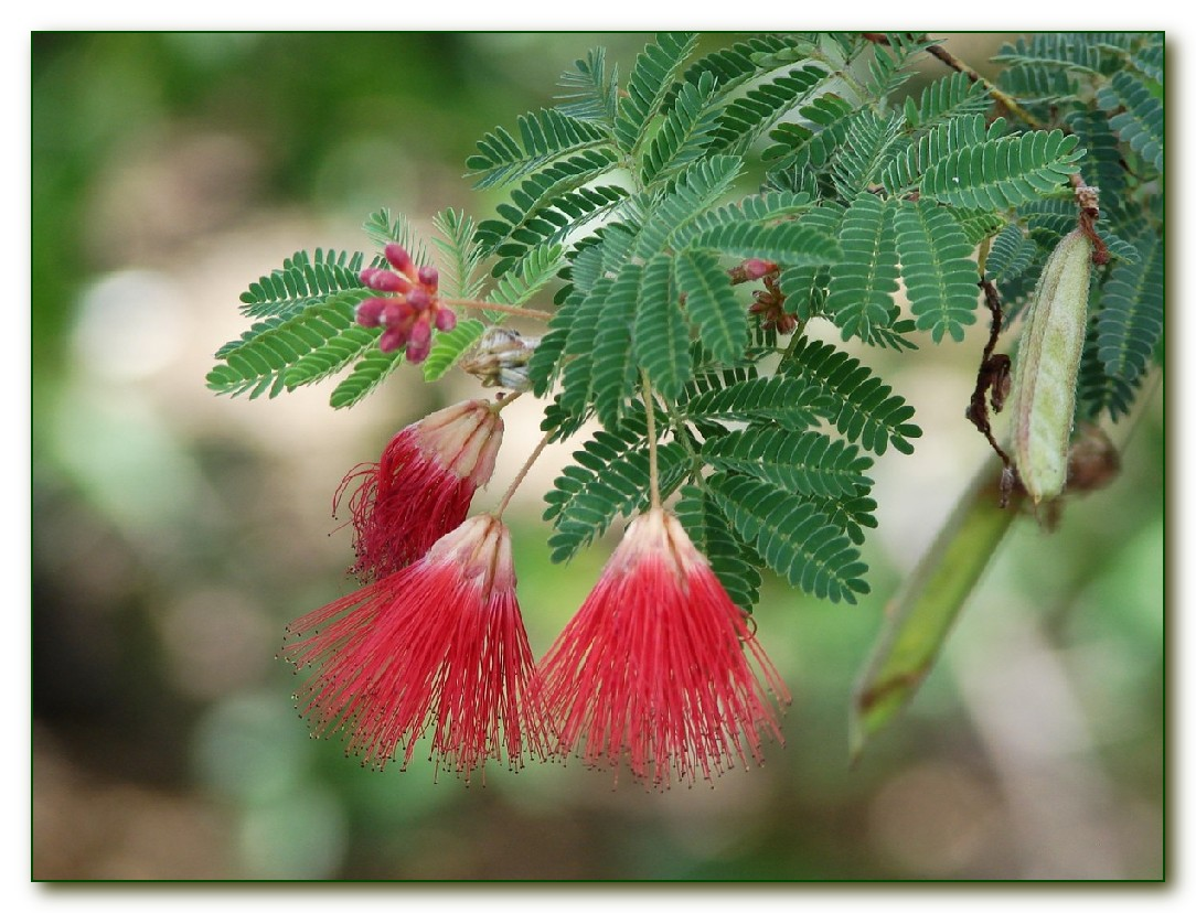 Calliandra californica; The smallest Calliandra I've ever seen- the plant is about 50cm hight, has tiny leaflets, small flowers ~5cm, seedpods ~5cm. Common name: Baja fairy duster Native to Mexico (N. America) Photographed in Mt Coot-tha Botanic Garden